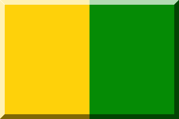 Yellow and green flag, I uploaded a new version of Blackcat's file